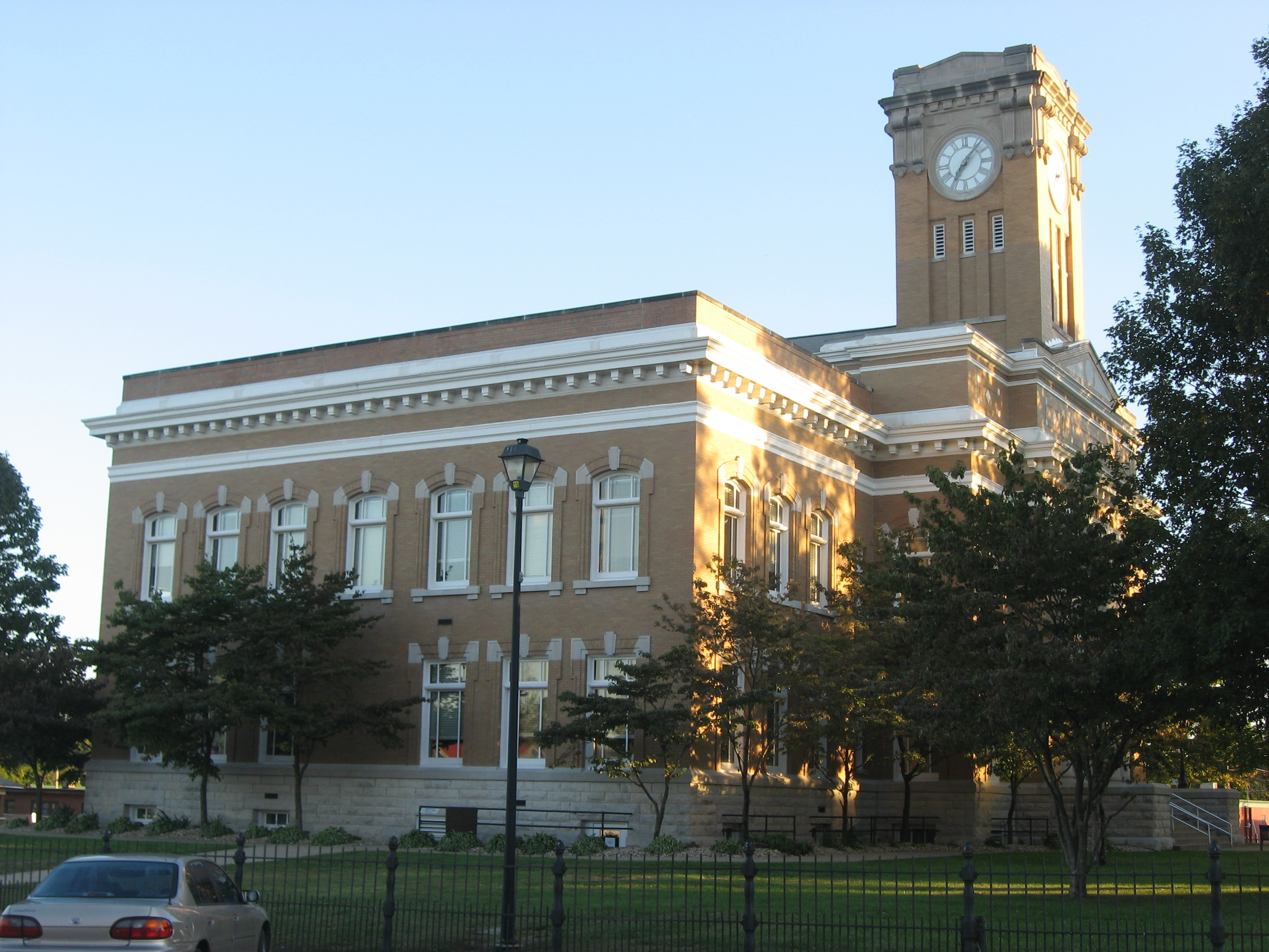 Northern side and front of the Jackson County Courthouse, located along S. Main Street (U.S. Route 50) in downtown Brownstown, Indiana, United States. Built in 1870, the courthouse is listed on the National Register of Historic Places.